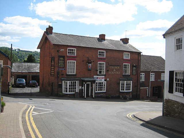 Crown & Sceptre pub, Bromyard On Sherford Street, the eastern edge of the town.